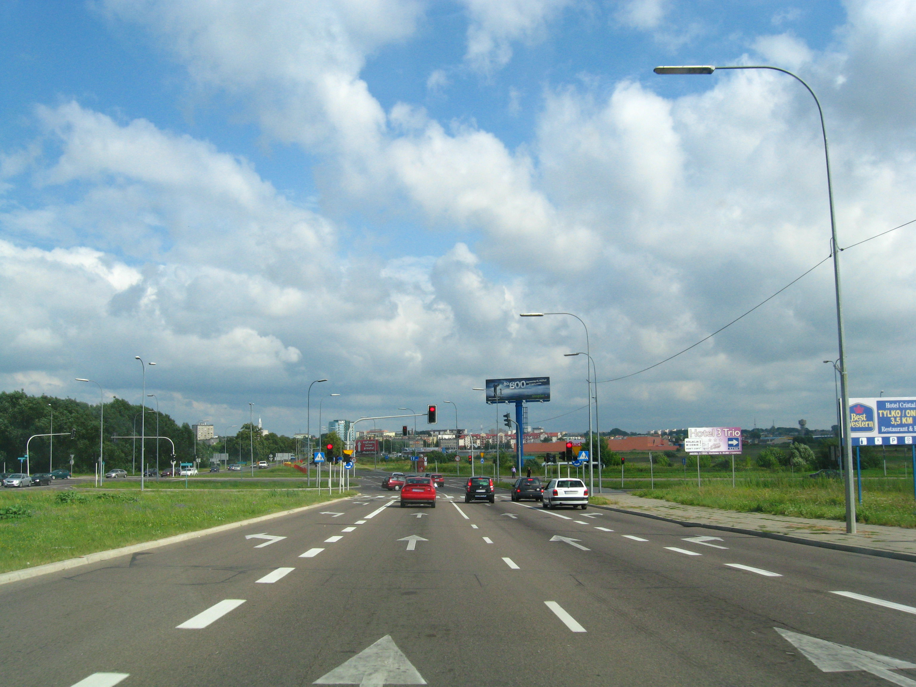 Białystok - John Paul's II Avenue